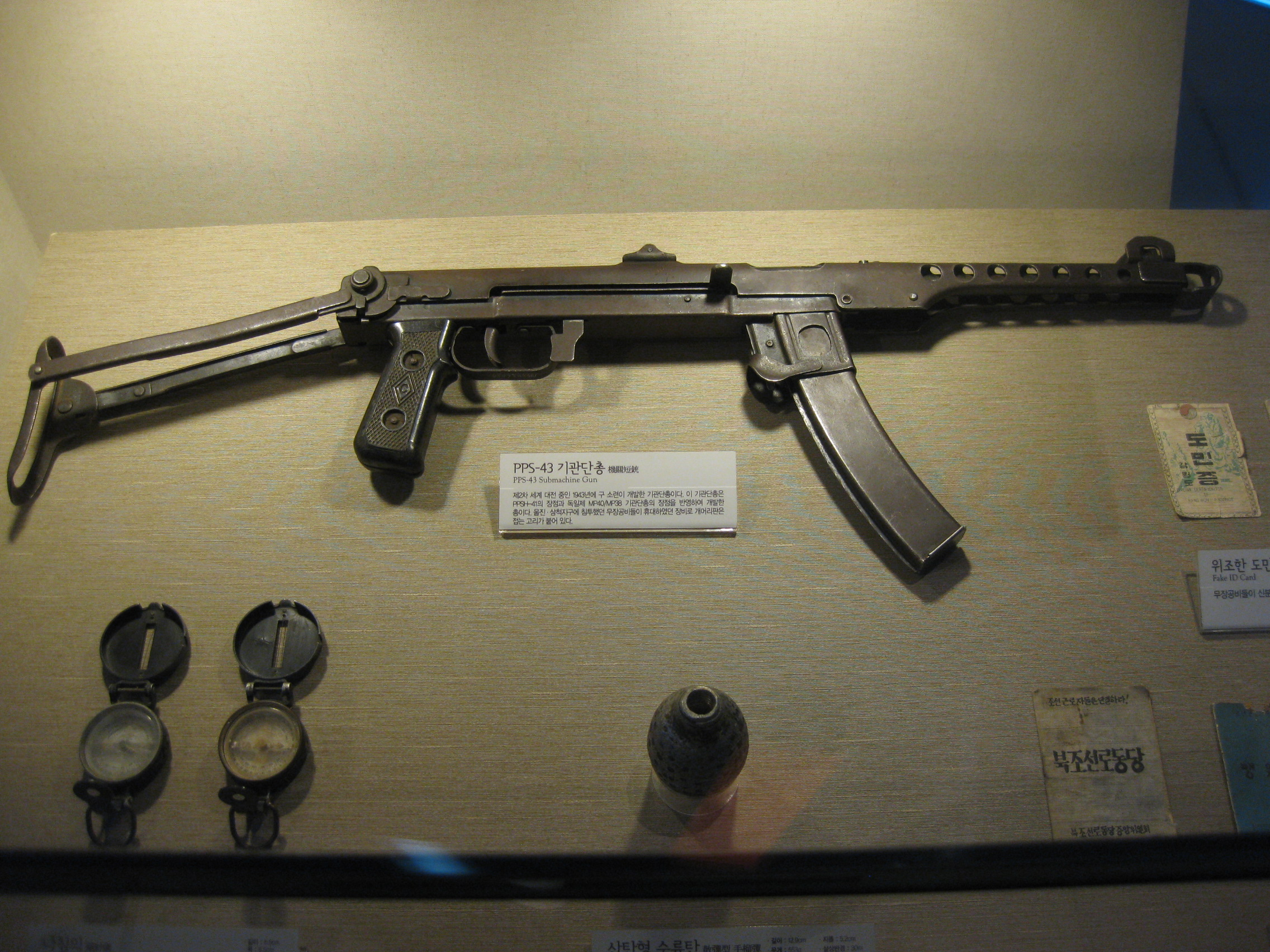 PPS-43, compasses, grenade and fake IDs recovered from a Unit 124 soldier in the Ulchin-Samcheok Landings